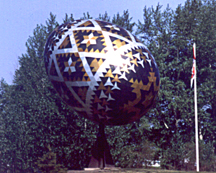 Vegreville, Alberta's Ukrainian Easter Egg, or pysanky (pes'-en-keh) is the world's largest. It was built with funding provided to celebrate Canada's 100th birthday in en:1967. 2004 D. Windrim